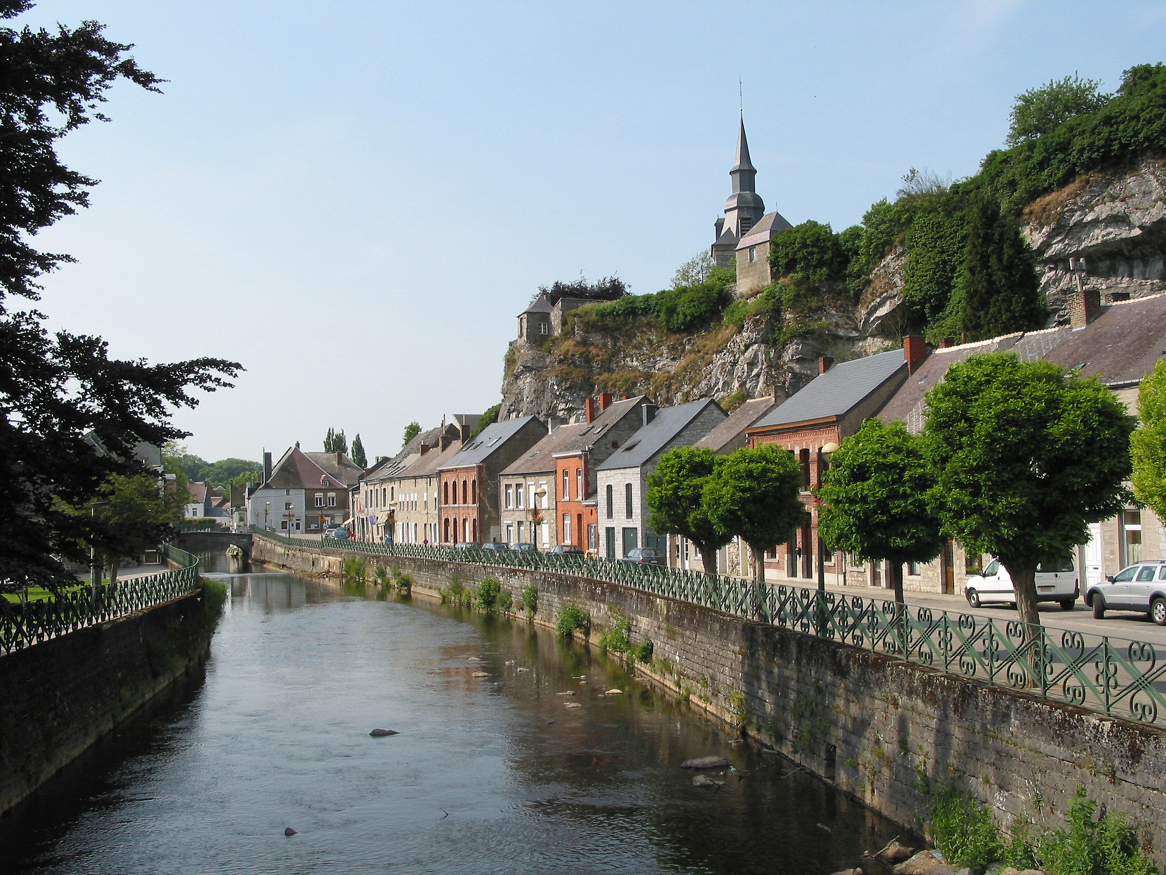 Couvin (Belgium), the "rue de la Falaise" alongside the Eau Noire river.